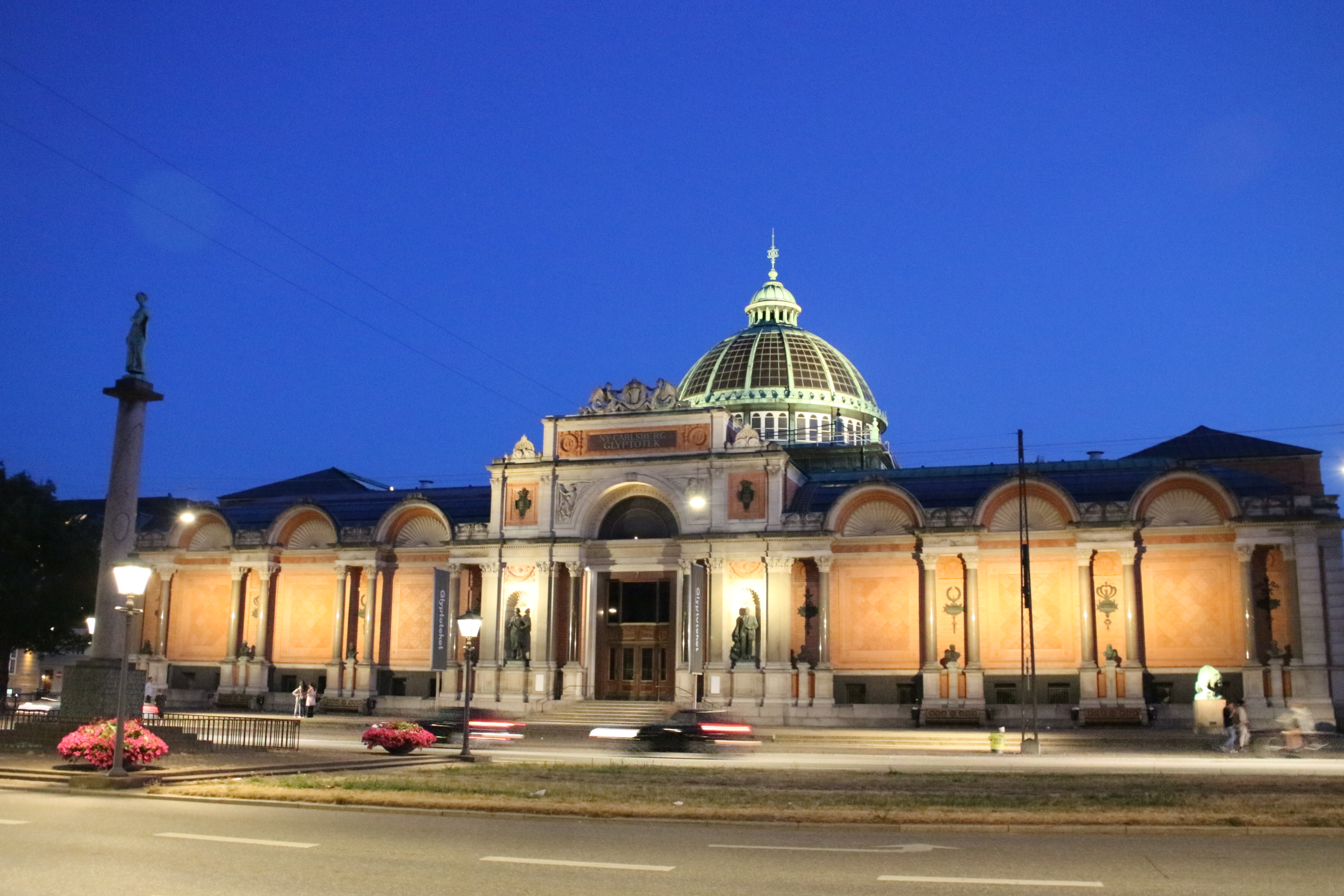 Ny Carlsberg Glyptotek - Building